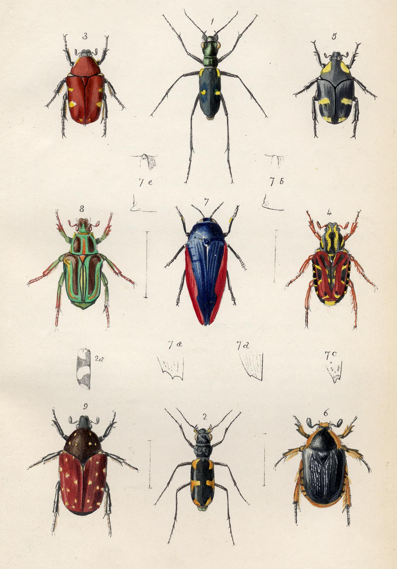 Plate from Transactions of the Entomological Society of London Volume 5 1848